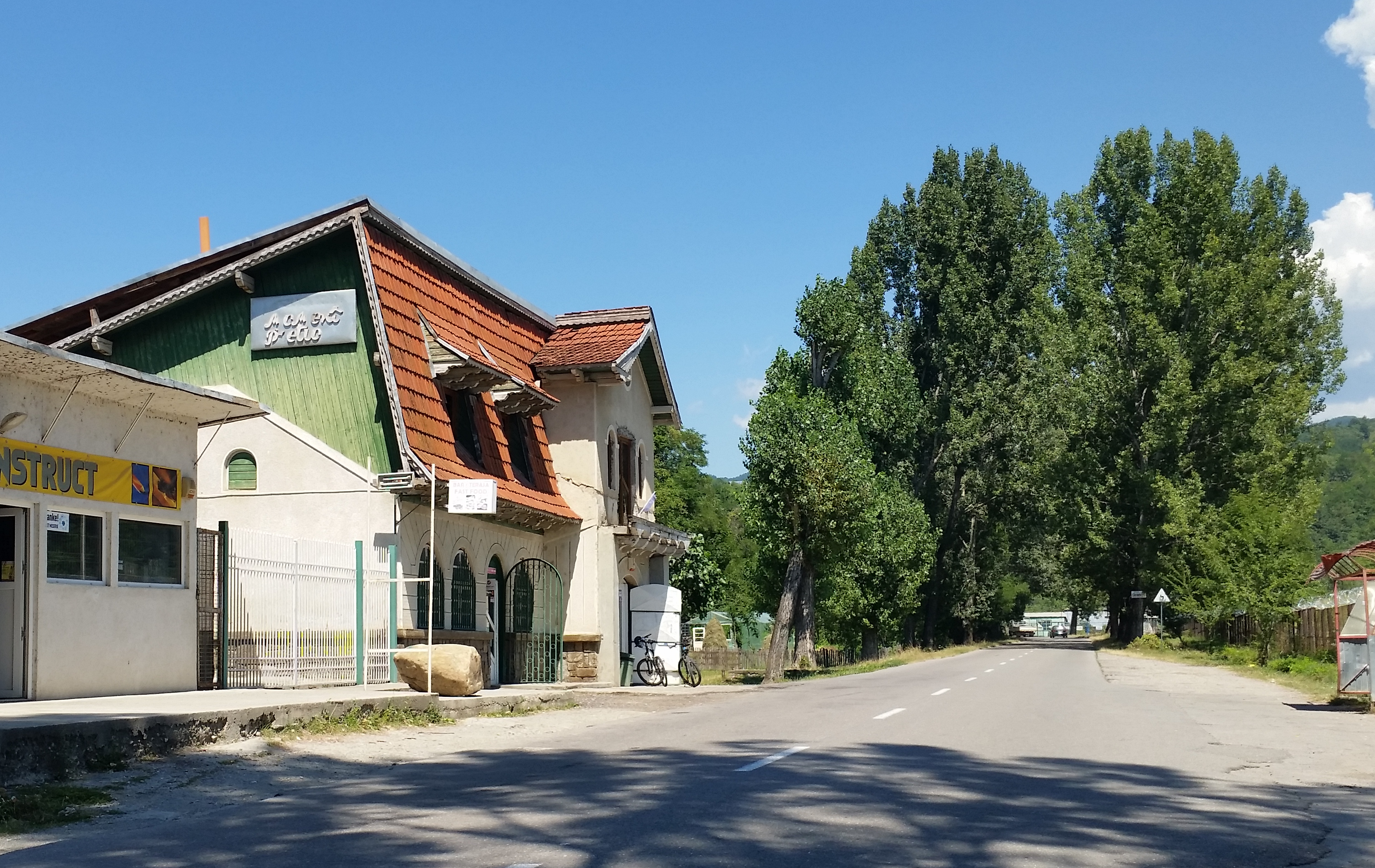 The now disused Lunca Mare train station on the former narrow gauge Doftana–Valea Doftanei railway line in Prahova County, Romania. The building now houses a small restaurant and a rural grocery store.